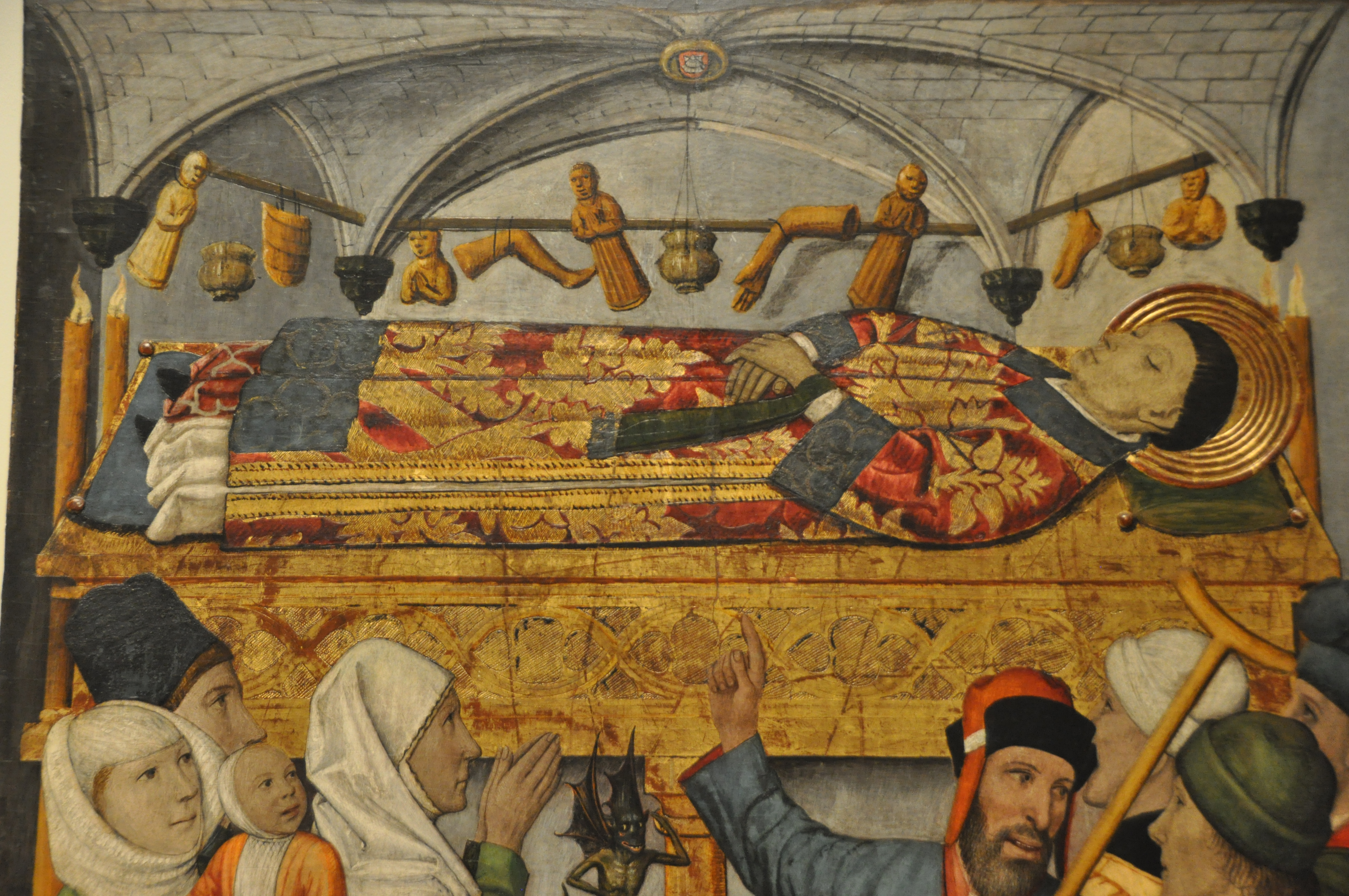 Detail of the tomb of Saint Vincent as depicted in Saint Vincent of Sarrià altarpiece, a work of catalan painter Jaume Huguet. 1455-1460 MNAC Barcelona